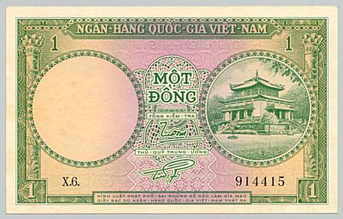 vietnam 1 dong (back) - 1st printed 1955